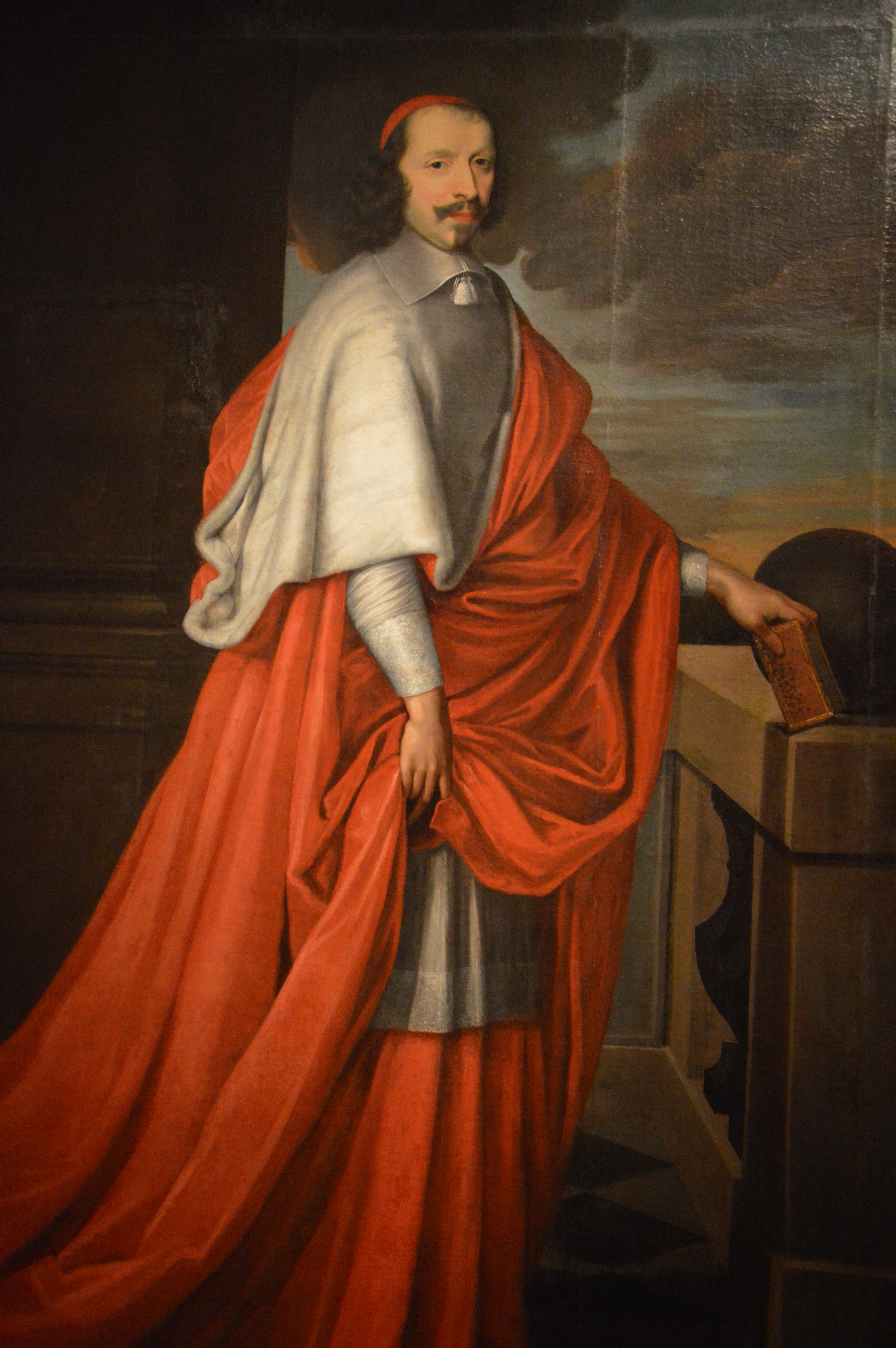 Philippe de Champagne's 1650 portrait of Cardinal Jules Mazarin (1602-1661)